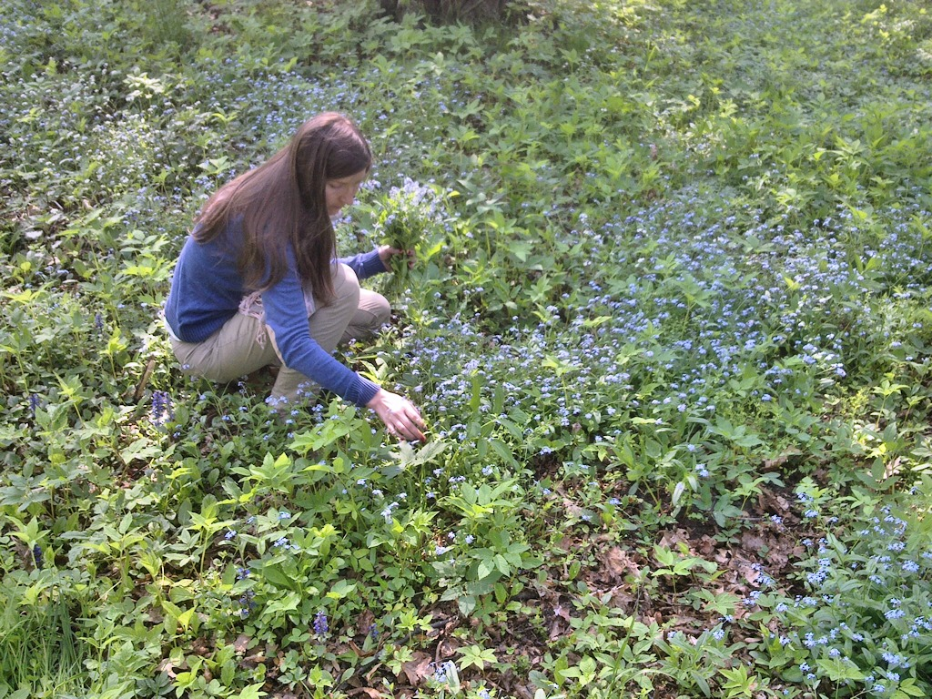 Woman picking Myosotis arvensis (Field Forget-me-not) flowers in forest in Brynek, Poland.